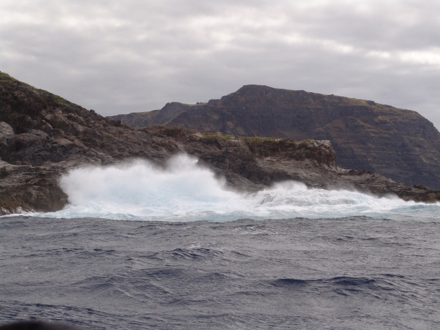 Birdman Island Coast